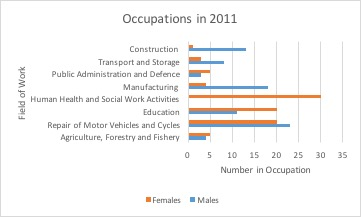 An occupation chart for males and females in Nether Langwith, based on data from the 2011 Census.